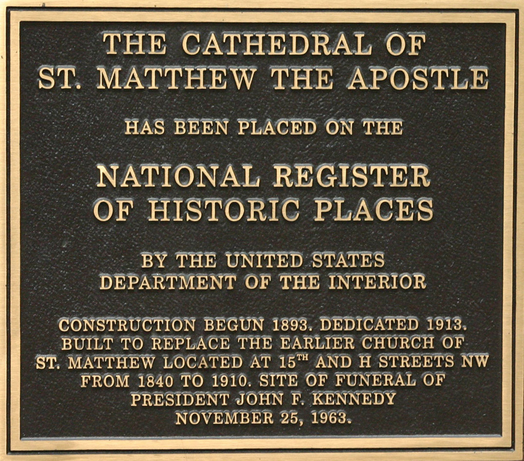 A plaque commemorating the Cathedral of St. Matthew the Apostle located at 1725 Rhode Island Avenue, NW in the Dupont Circle neighborhood of Washington, D.C.